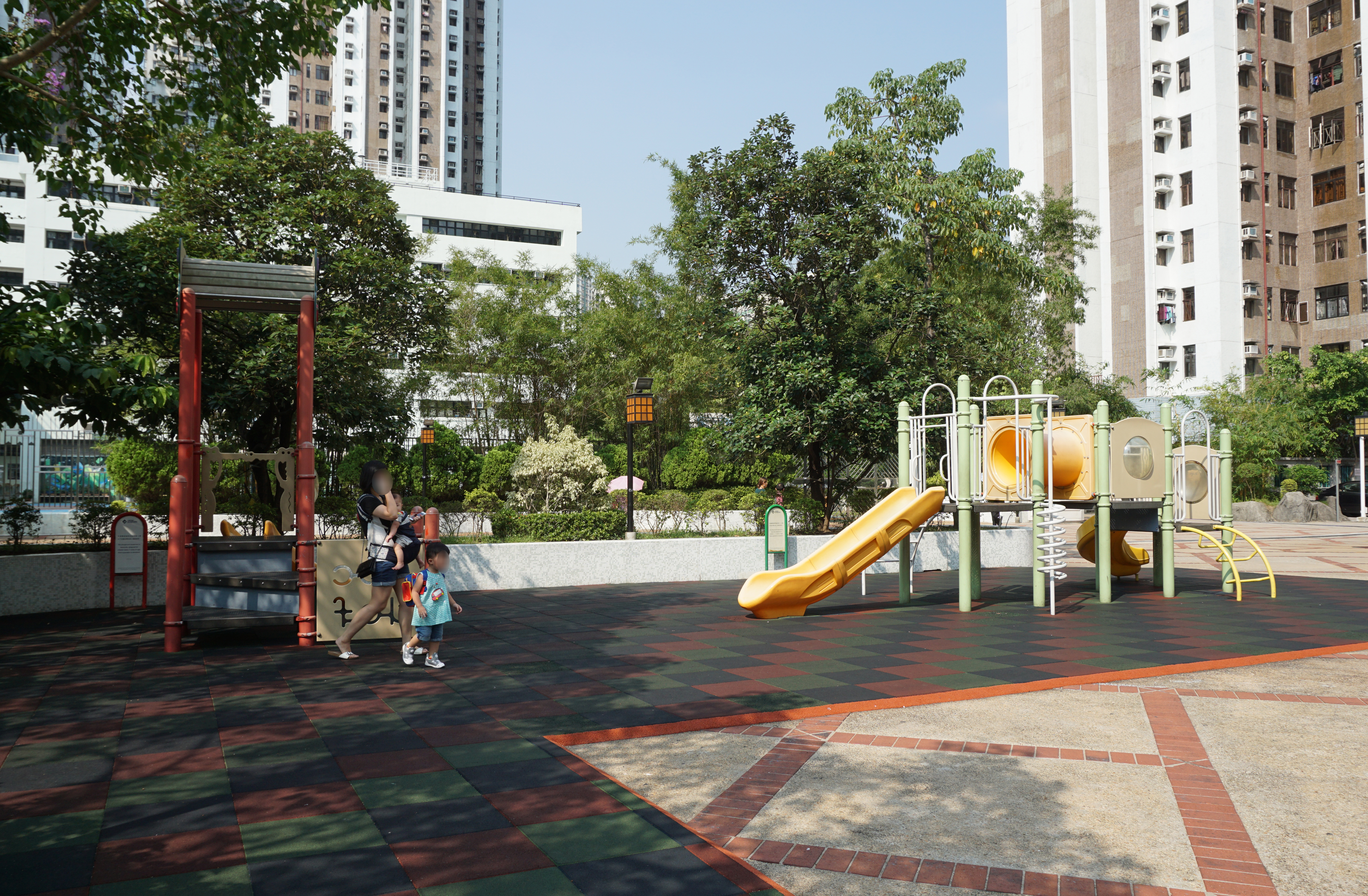 Luk Yeung Sun Chuen in Tsuen Wan, Hong Kong.